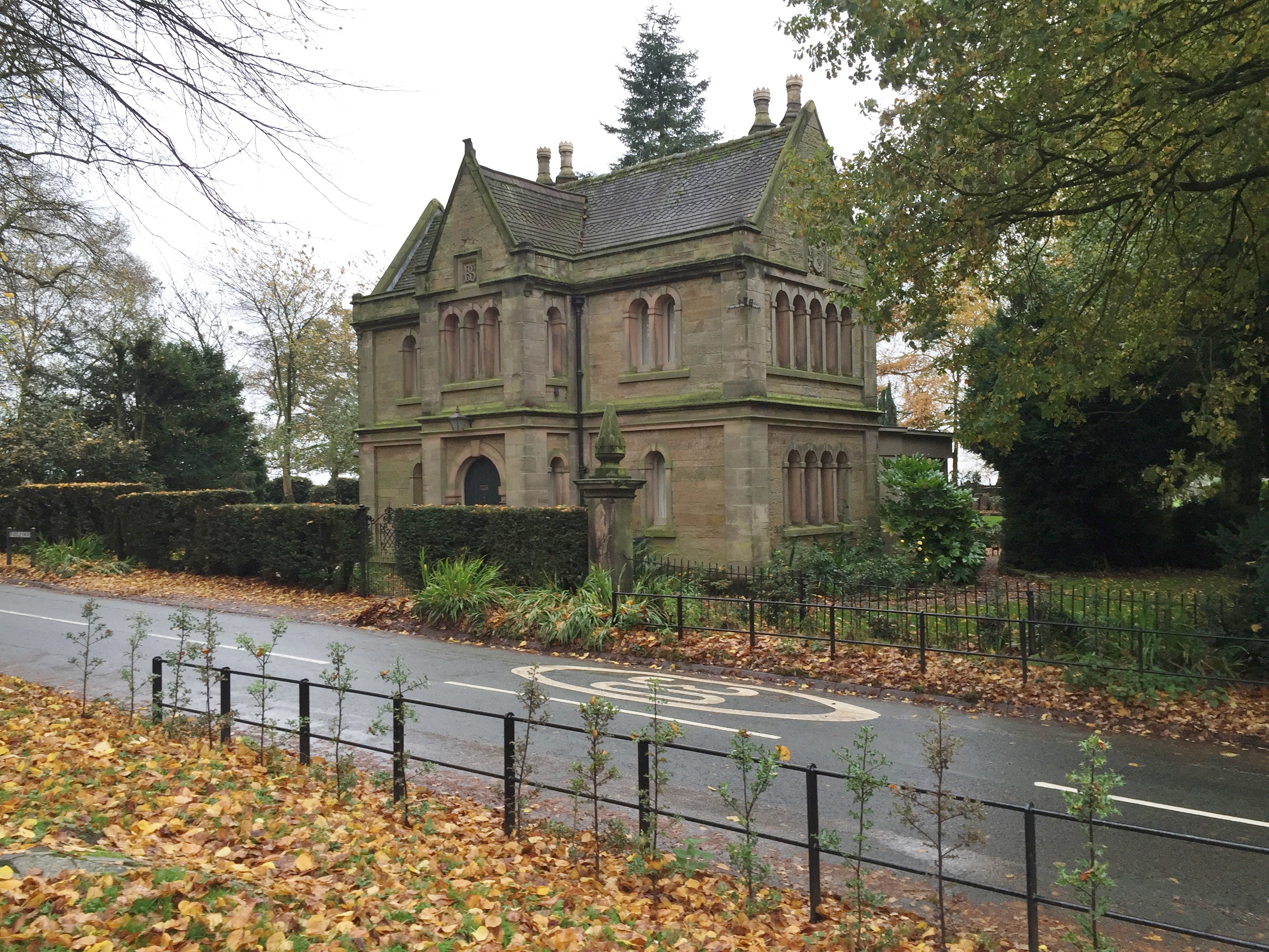 Photograph of Keele Lodge, Keele, Staffordshire, England